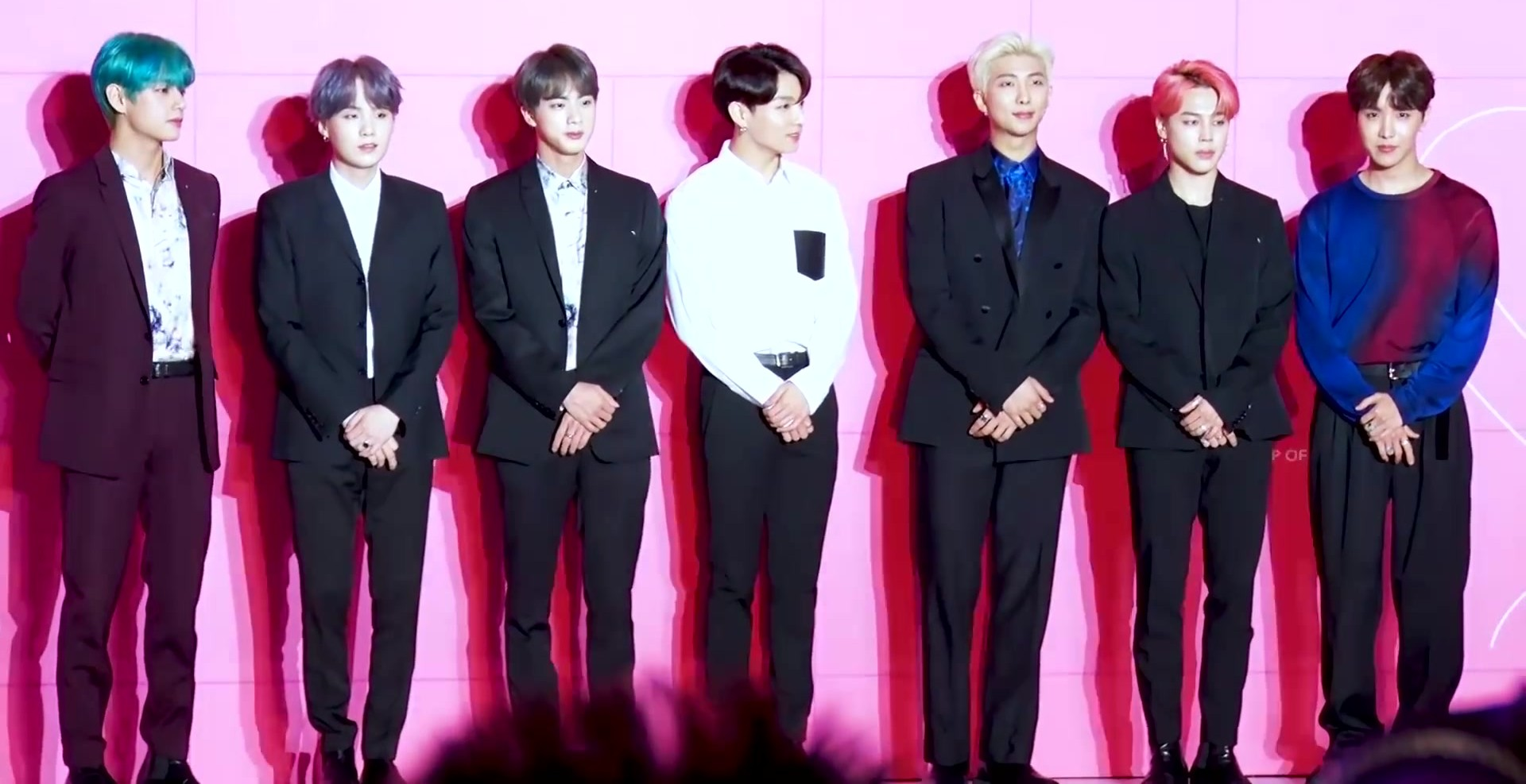 BTS at "Map of the Soul - Persona" global press conference, 17 April 2019